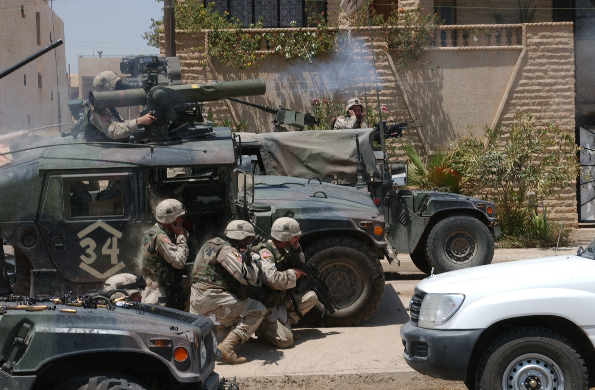 Soldiers of the Army's 101st Airborne Division (Air Assault) fire a TOW missile at a building suspected of harboring Saddam Hussein's sons Qusay and Uday in Mosul, Iraq, on July 22, 2003. Qusay and Uday were killed in a gun battle as they resisted efforts by coalition forces to apprehend and detain them.